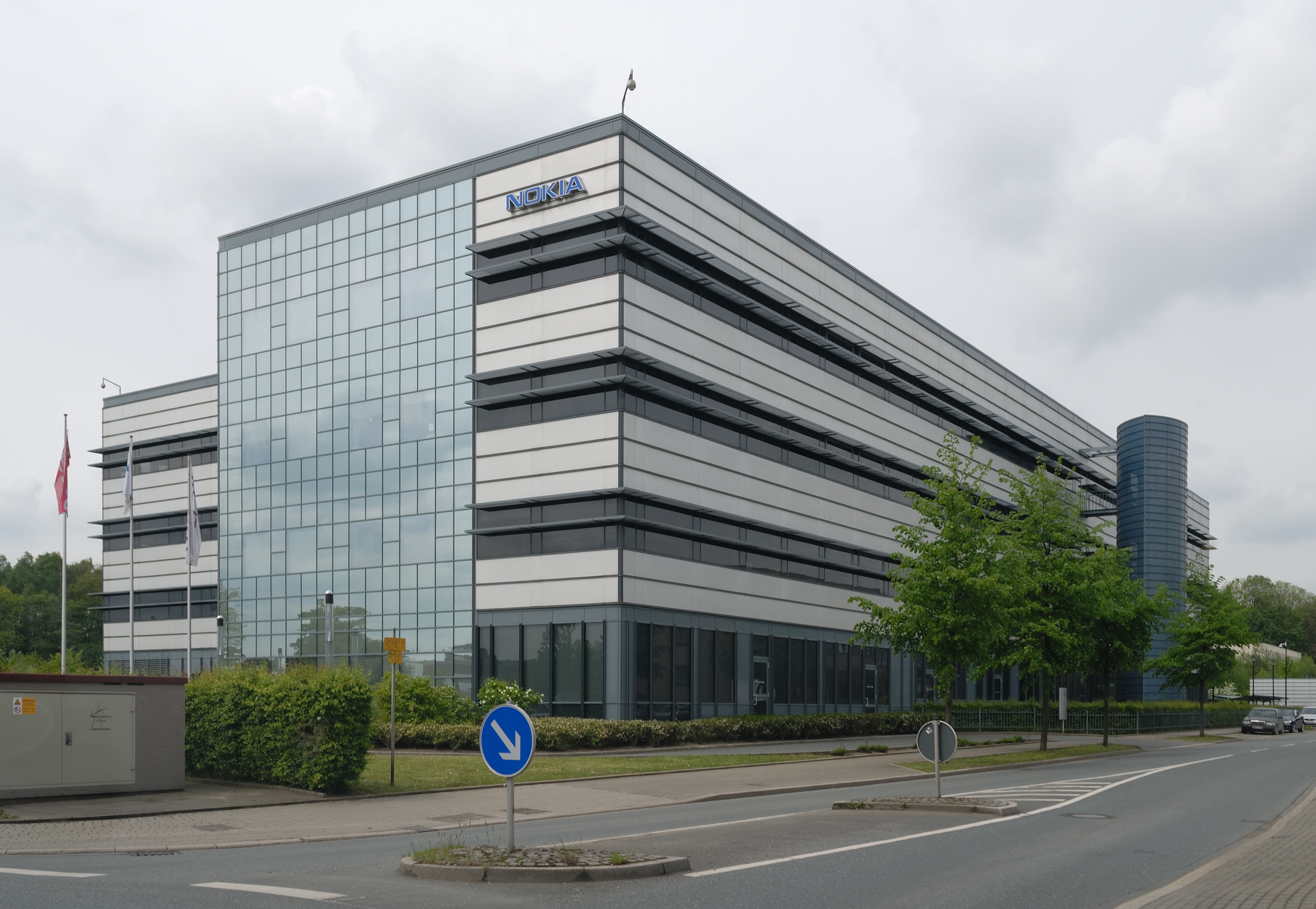 Office building of former Nokia plant in Bochum-Riemke. Nokia has shifted production to Romania (from 2008).